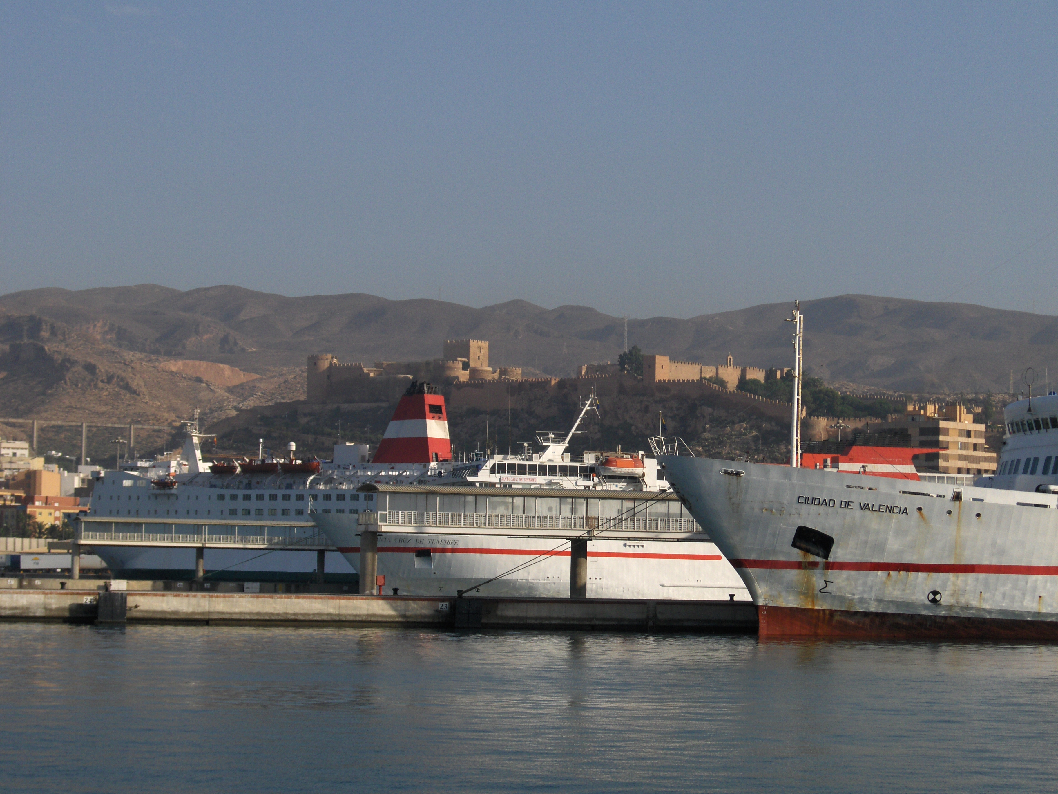 Almería's alcazaba over harbour Ciudad De Valencia IMO Number: 7915802 MMSI Number: 224629000 Callsign: EAXV Length: 139 m Beam: 21 m Santa Cruz De Tenerife IMO Number: 9032006 MMSI Number: 224663000 Callsign: EAJE Length: 117 m Beam: 21 m